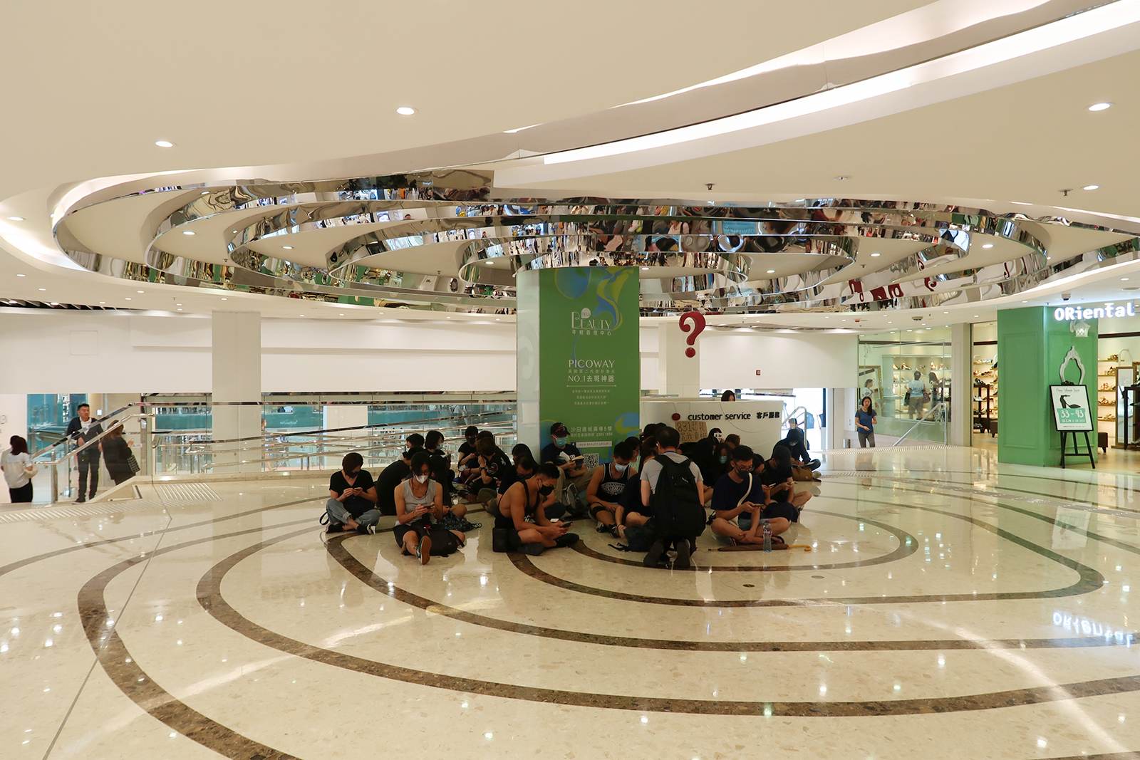 Citylink Protest